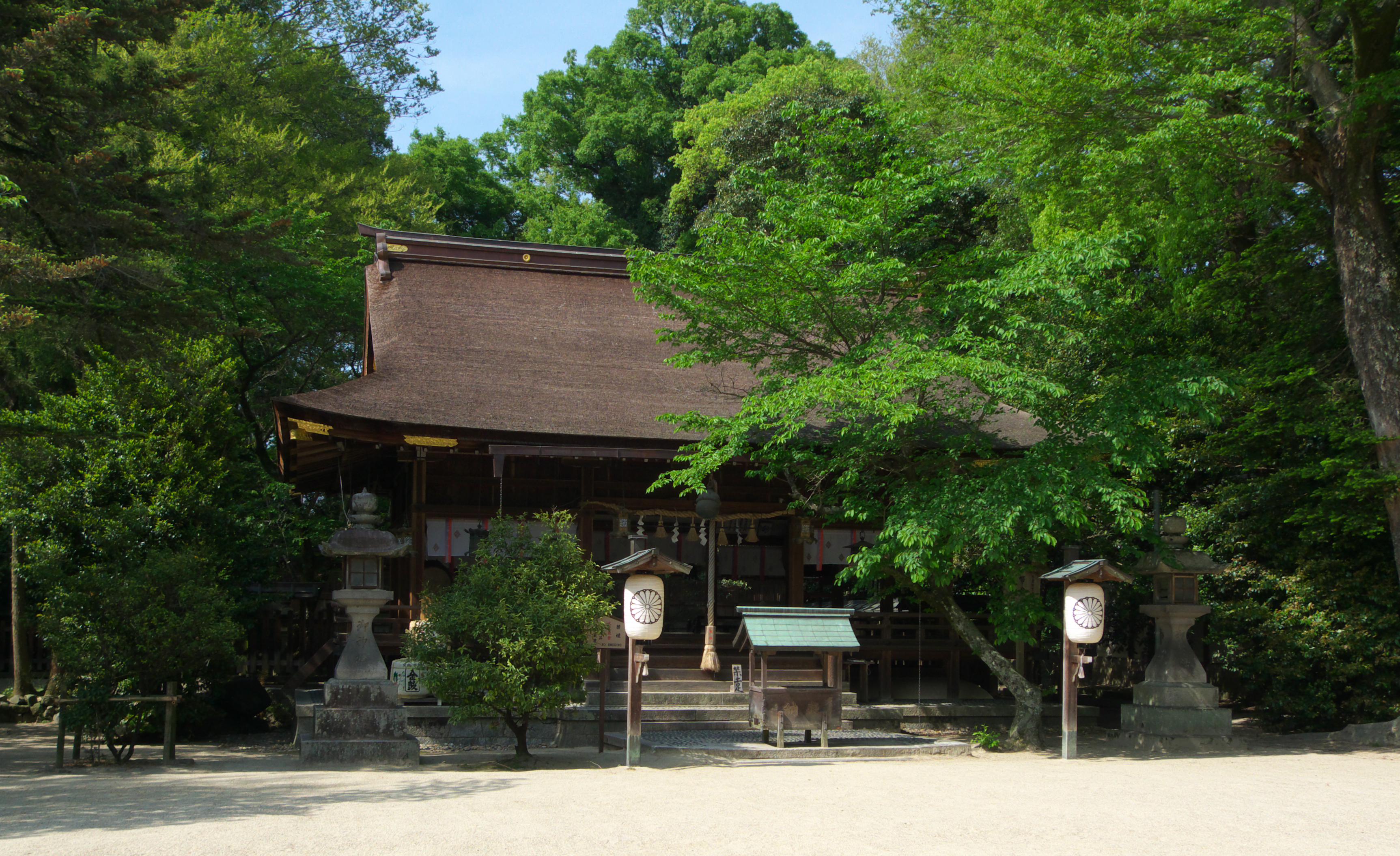 The Haiden of Hirose Jinja in Kawai, Nara, Japan.